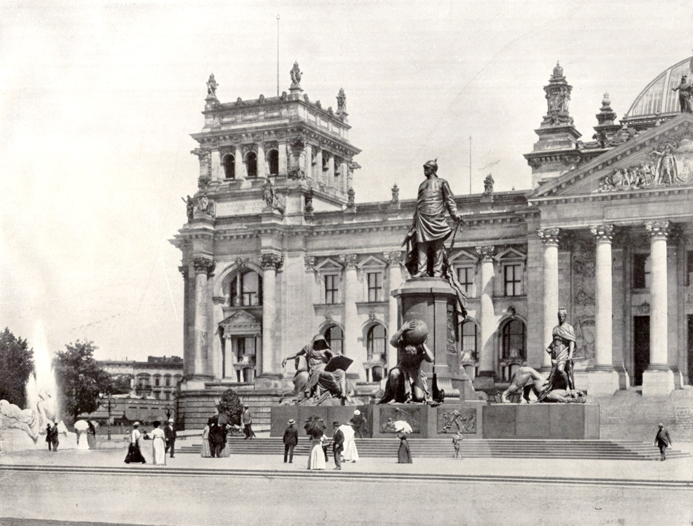 Berlin, memorial to Otto von Bismarck in the original position in front of the Reichstag around 1900